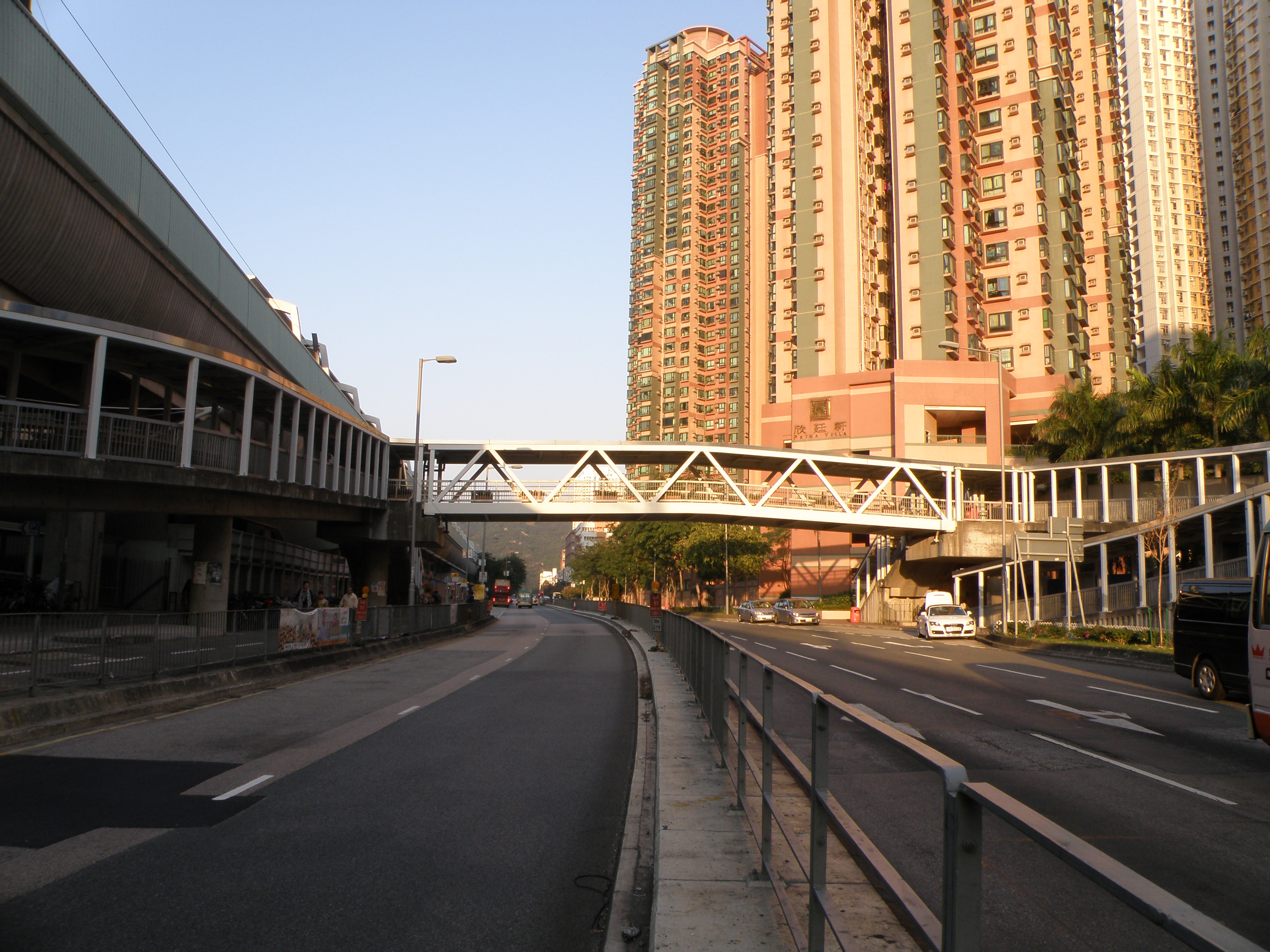 Chap Wai Kon Street in Shatin, Hong Kong.